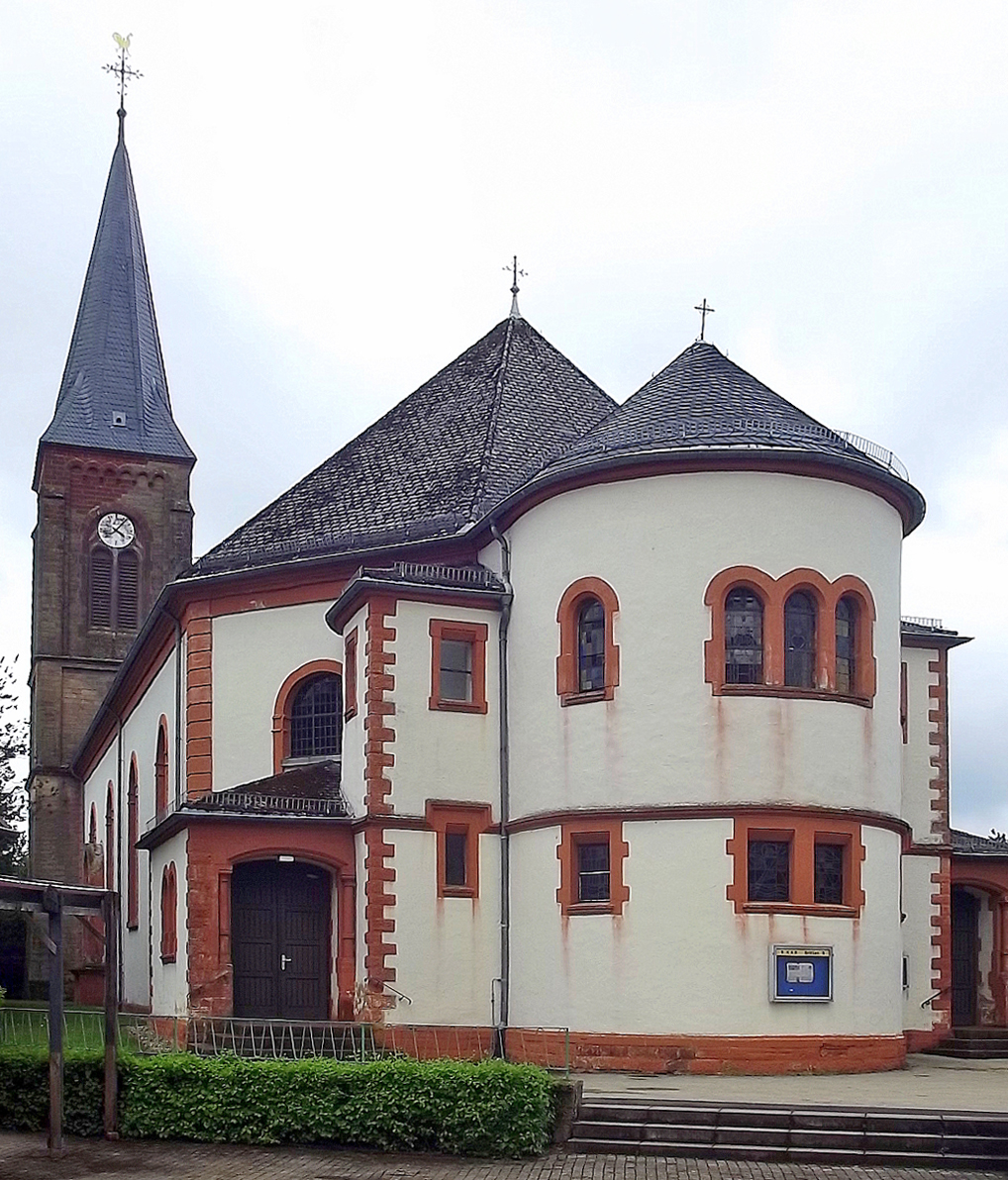 Exterior of the roman catholic church in Britten, Saarland, Germany